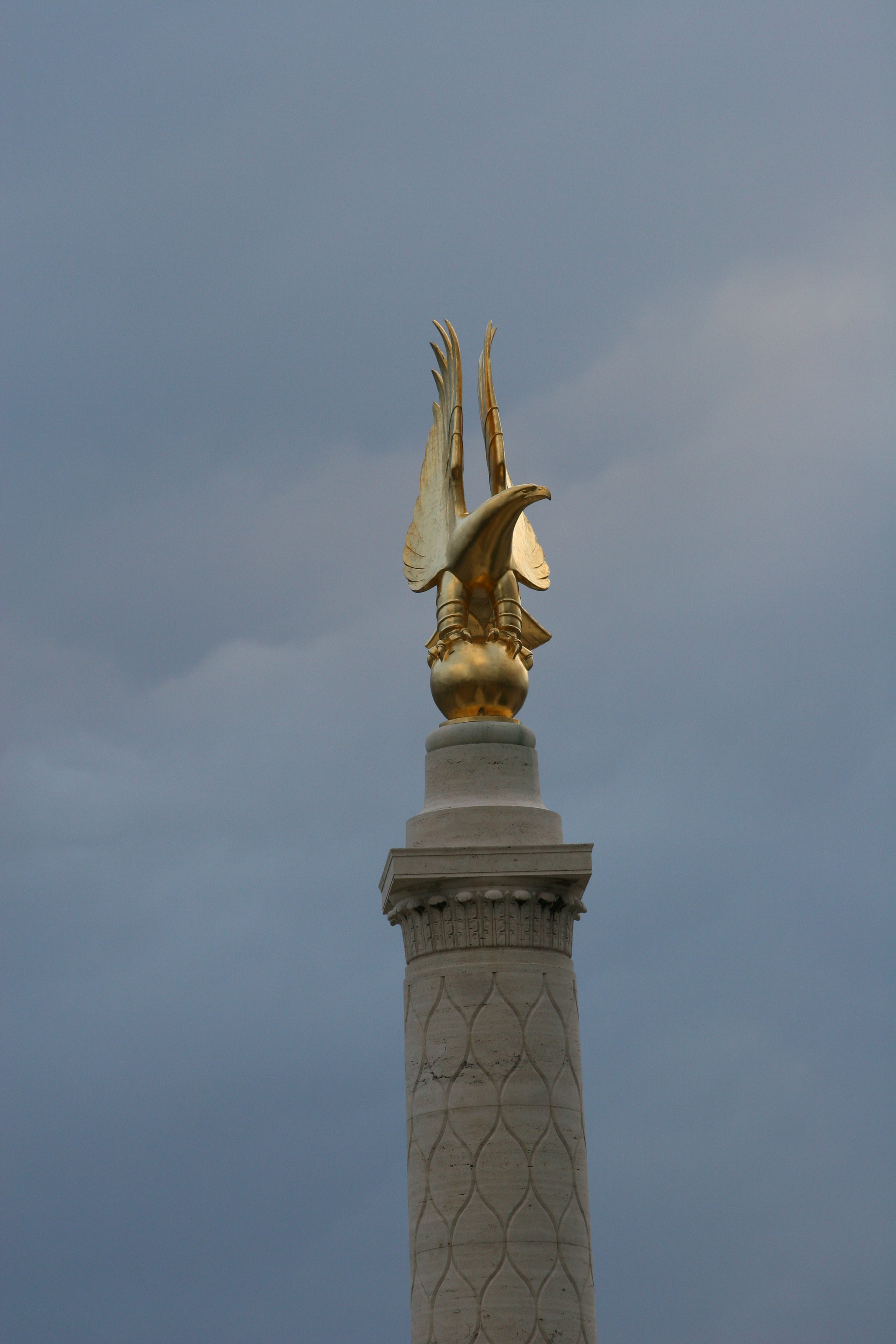 Malta Memorial in Valletta, Malta. Dedicated to the 2,298 Commonwealth aircrew who lost their lives in the various Second World War air battles and engagements around the Mediterranean, and who have no known grave.